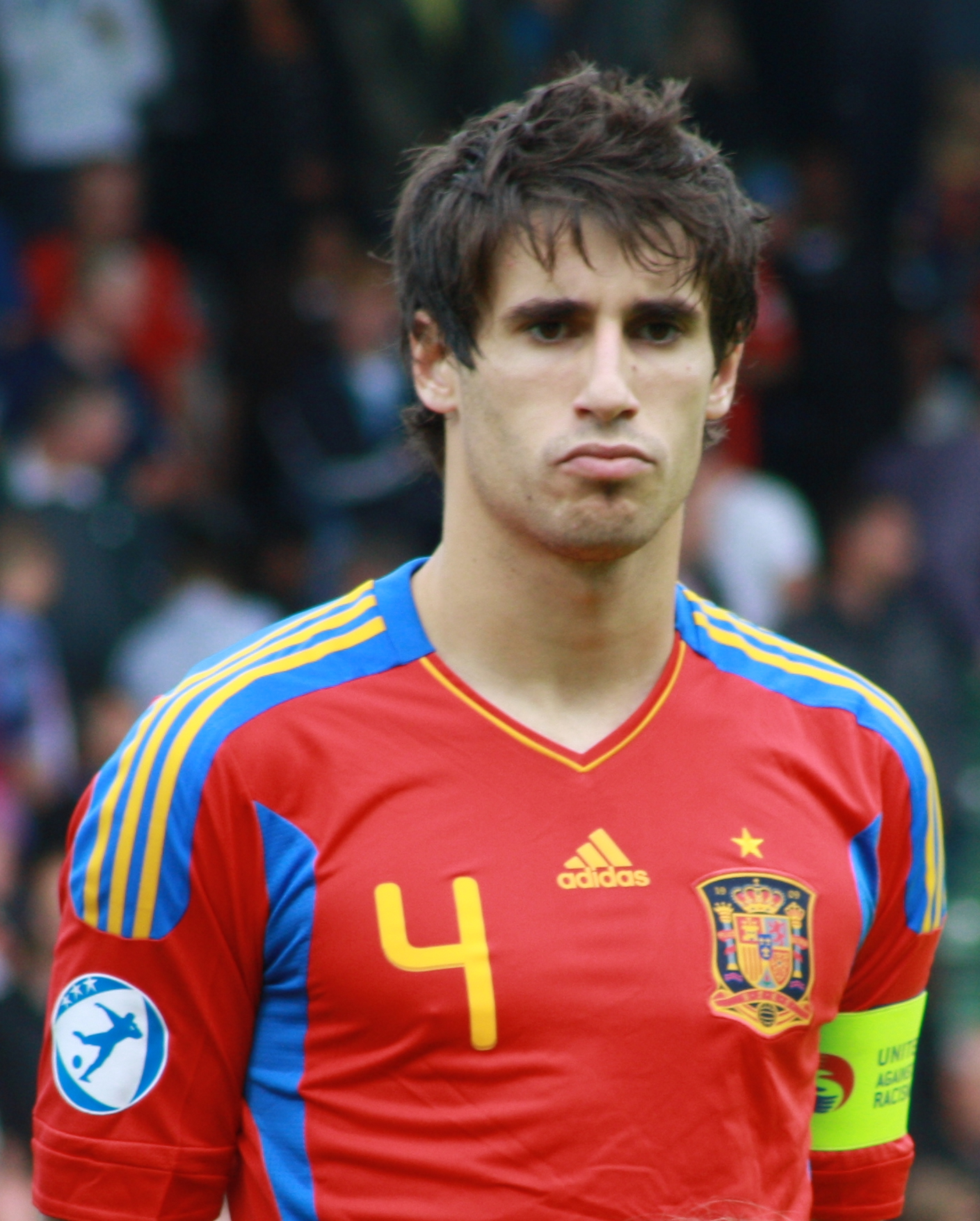 Spanish footballer Javi Martínez at the 2011 UEFA European Under-21 Football Championship.